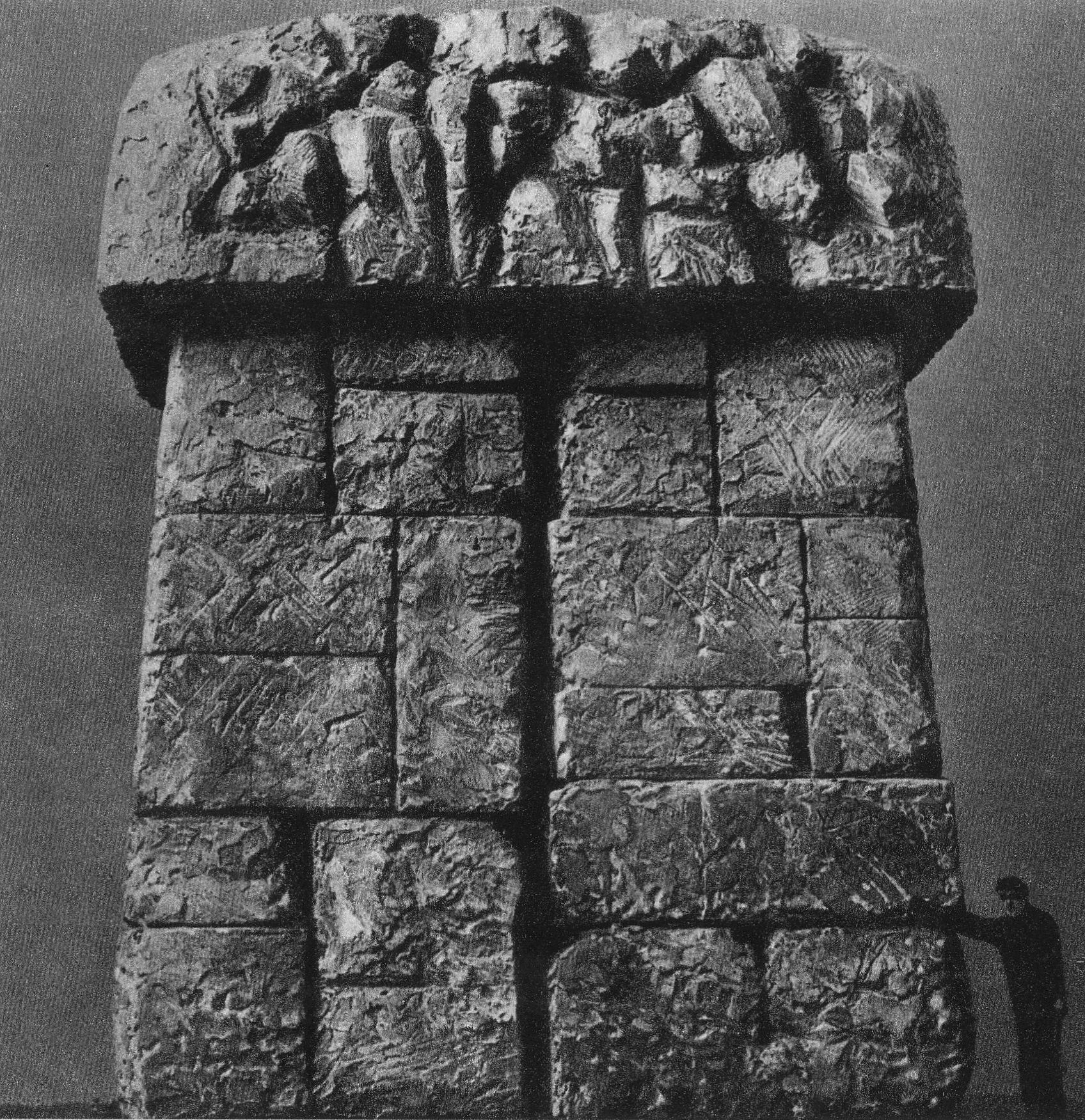 A model of monument at Treblinka death camp